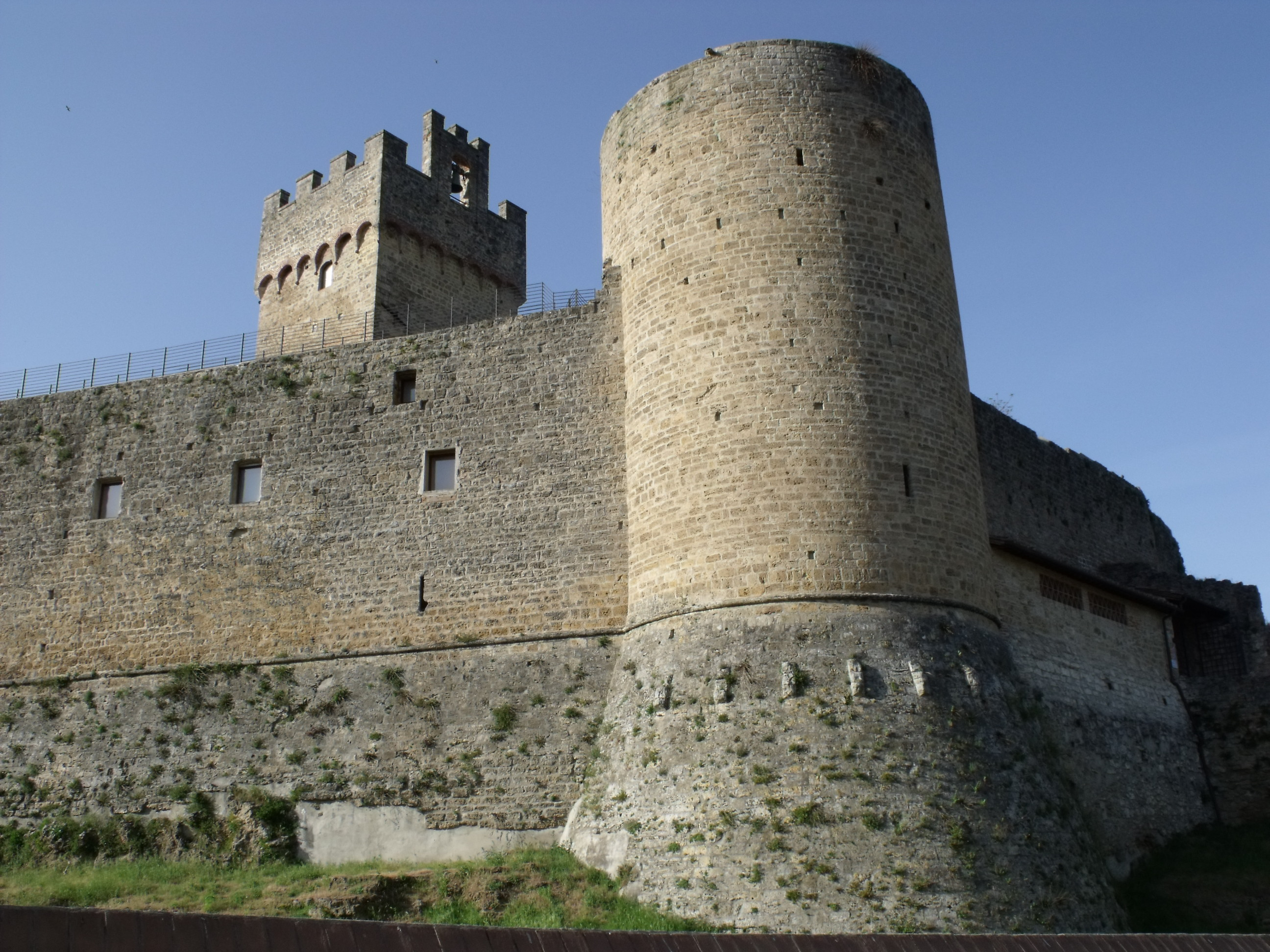 Tower (Mastio) and Torre Tonda (verso Staggia) from outside, Castle in Staggia Senese, Poggibonsi, Province of Siena, Tuscany, Italy